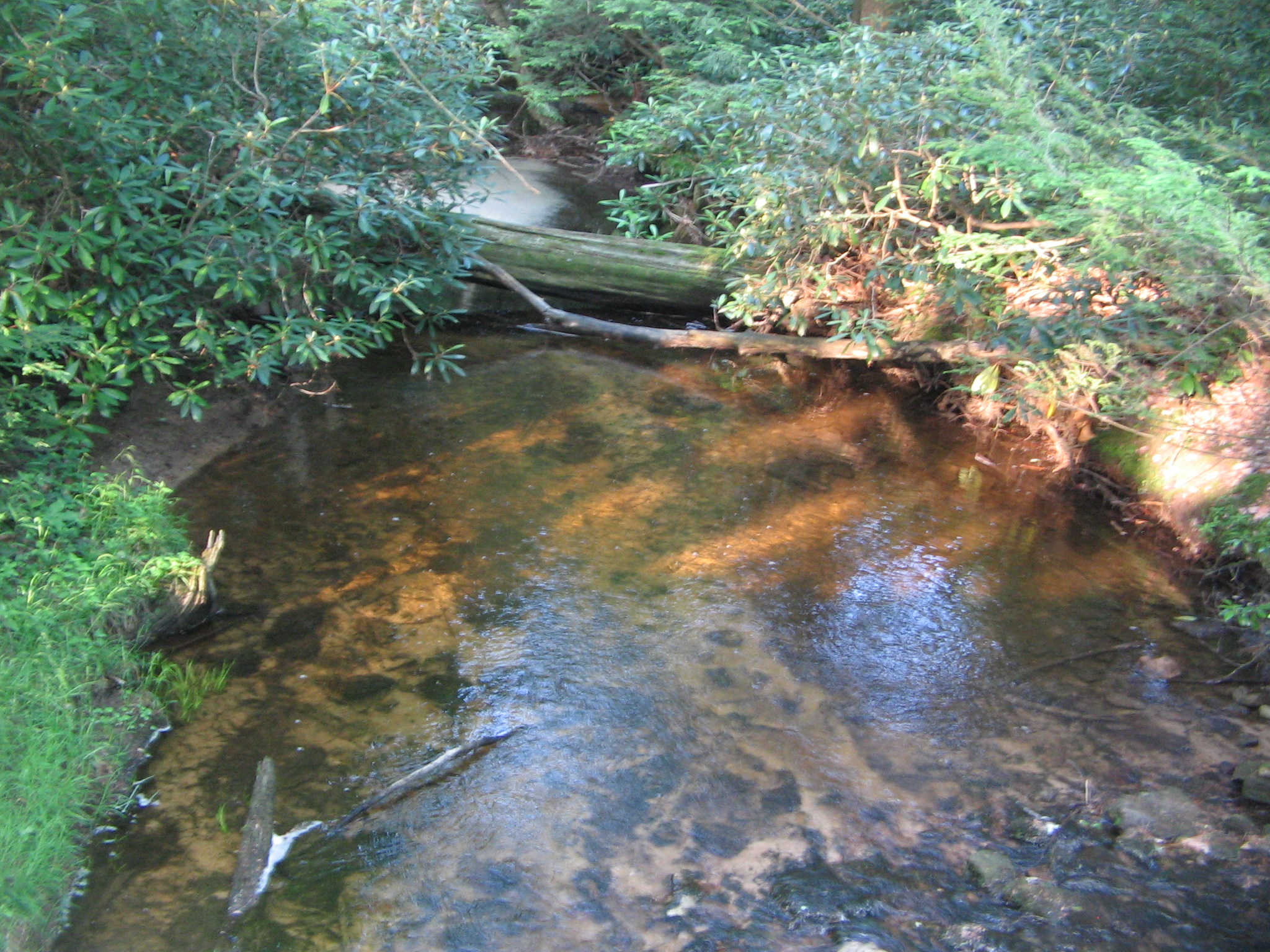 Rapid Run in the Natural Area at R.B. Winter State Park in Union County, Pennsylvania in the United States